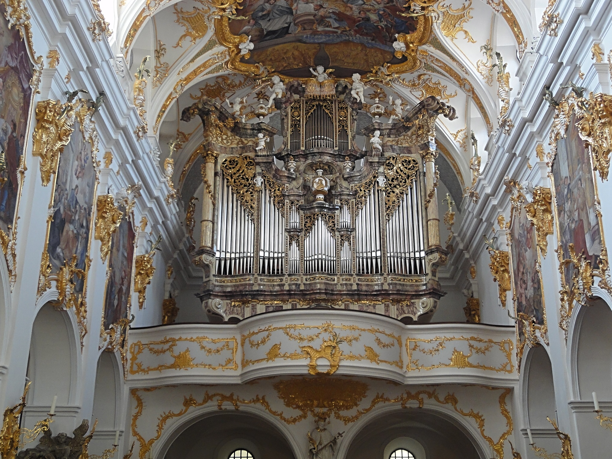 Pope-Benedict-Organ in the Old Chapel in Regensburg